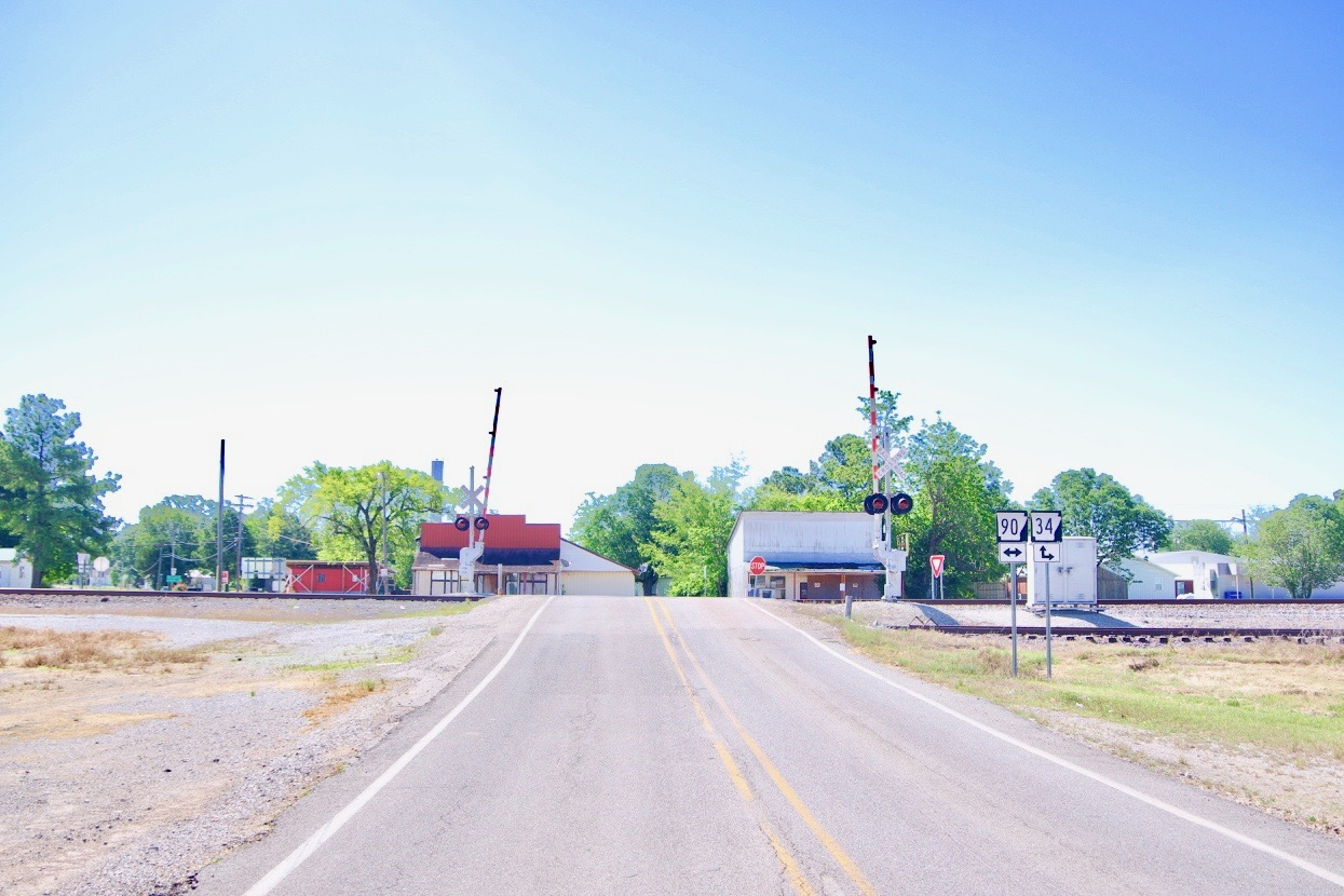 Arkansas Highway 304 approaching its intersection with Arkansas Highway 34 and Arkansas Highway 90 in Delaplaine, Arkansas, United States